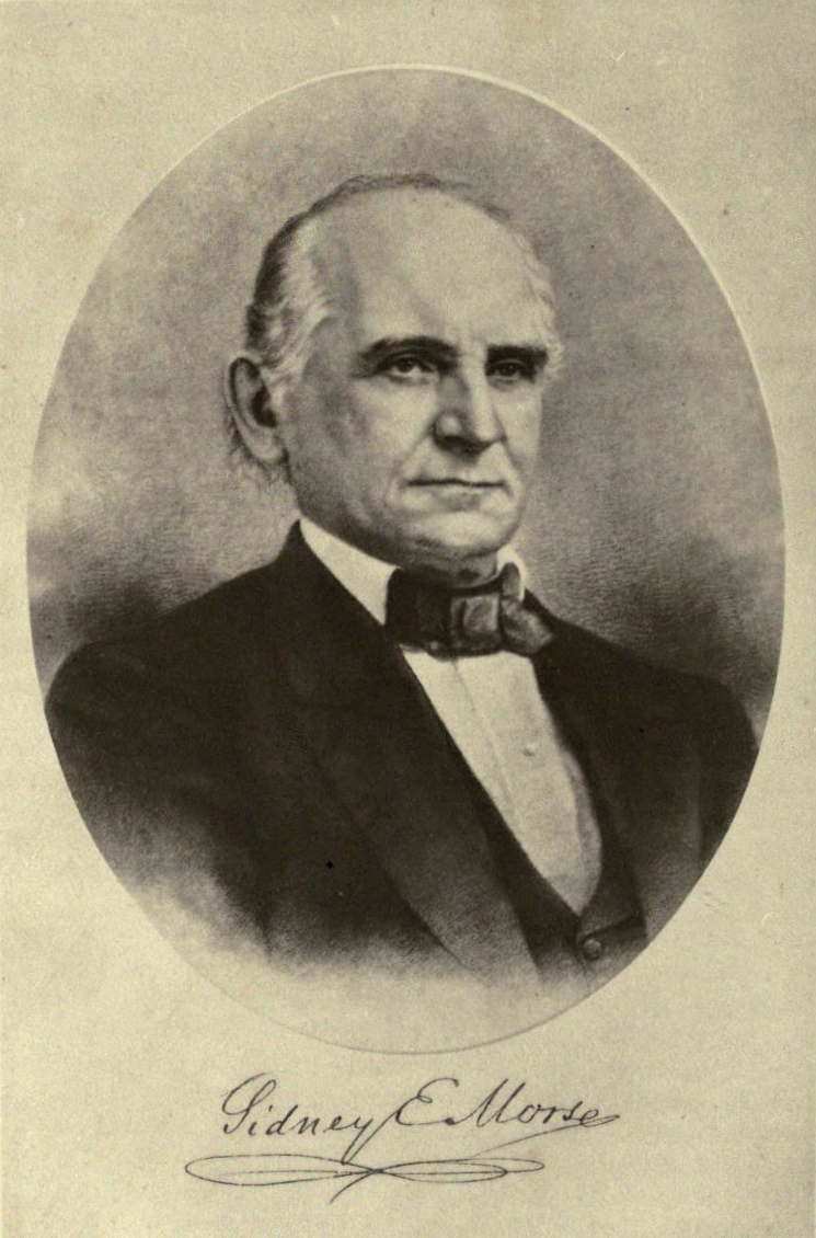 Sidney Edwards Morse (1794–1871), American journalist, cartographer, and inventor